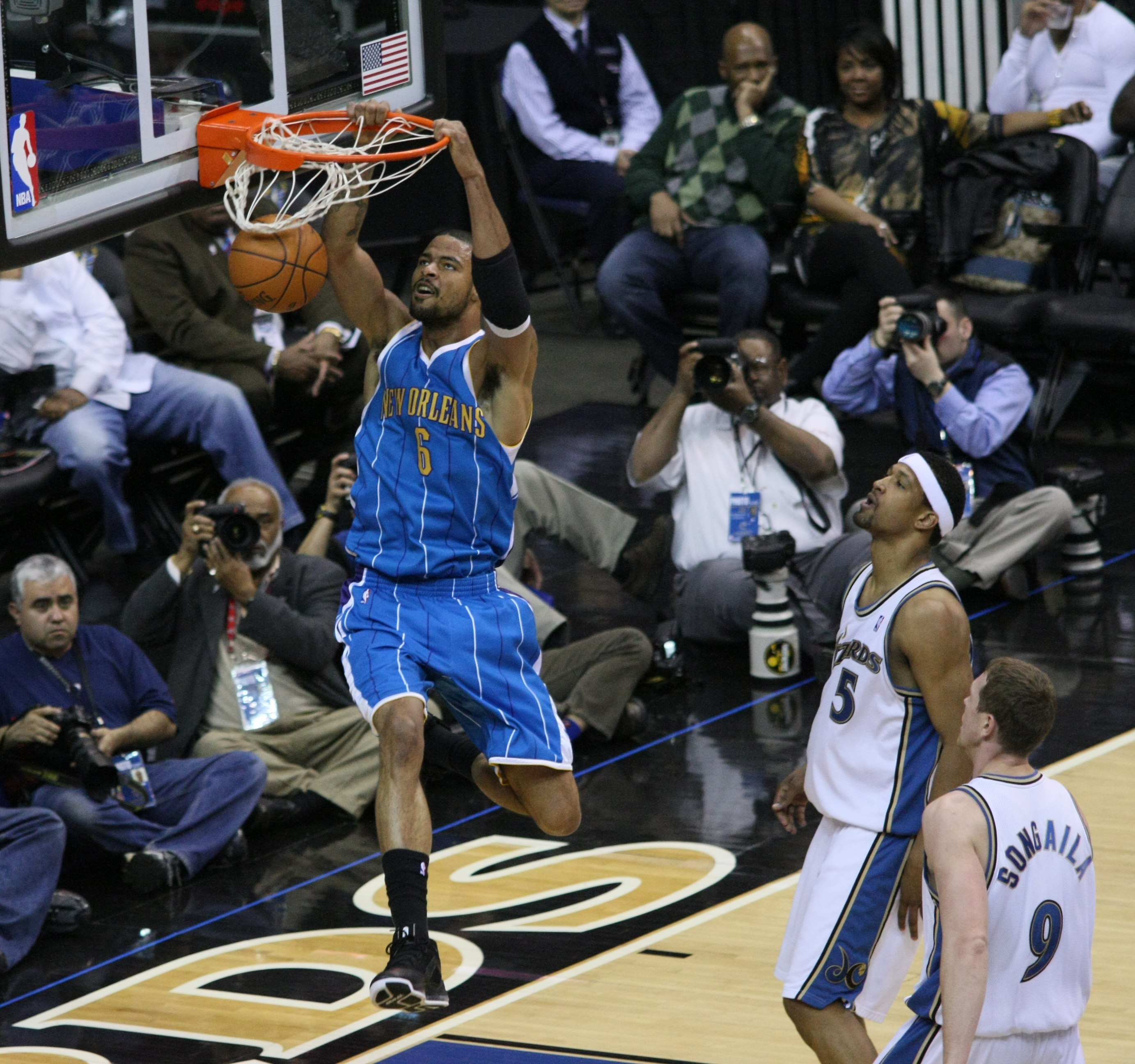 An image of New Orleans Hornets basketball player Tyson Chandler dunking.